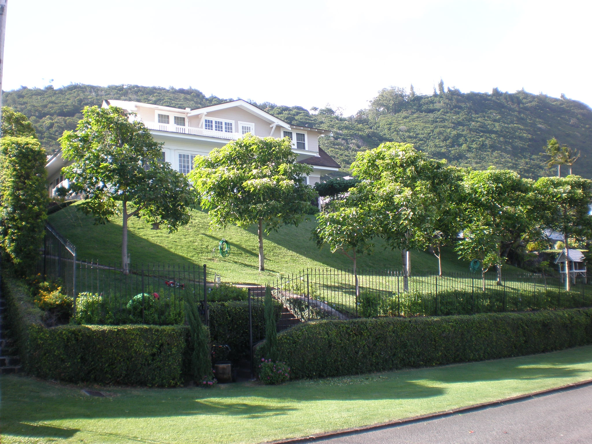 Dr. Archibald Neil Sinclair House, 2725 Terrace Drive & 2726 Hillside Avenue, Honolulu, Hawaii, on National Register of Historic Places